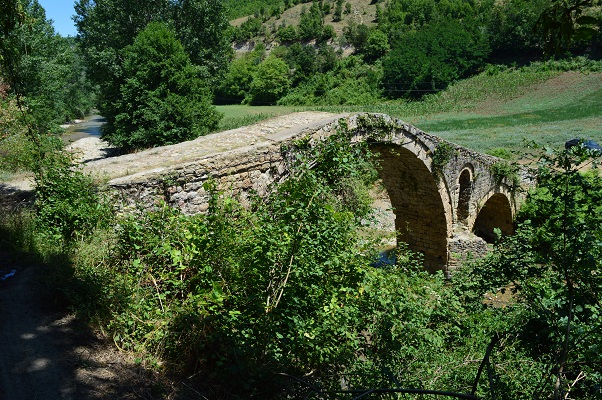 The old Golic Bridge near Pogradec